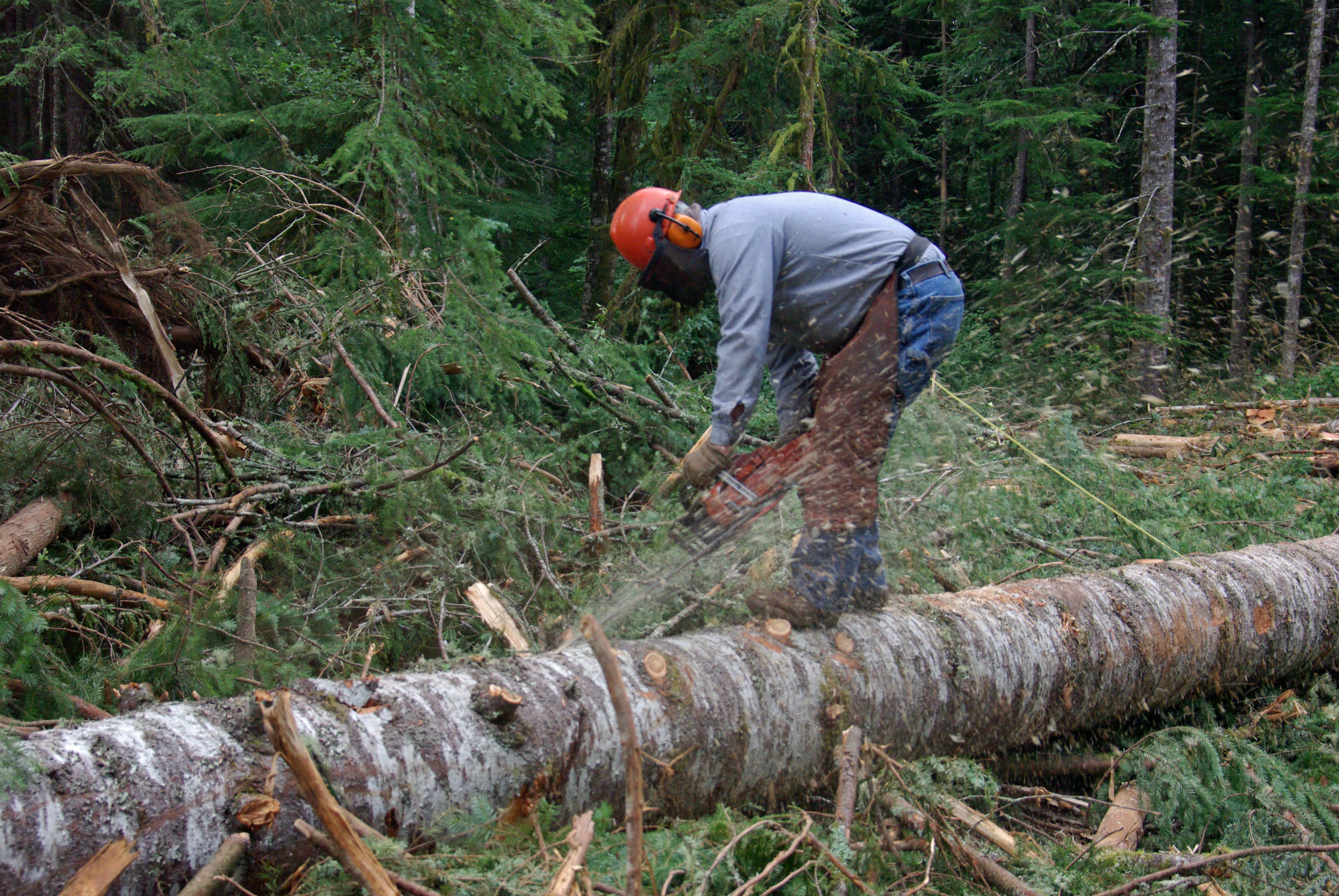 The Bucker will often 'swamp' at the same time. This involves walking down the tree and cutting the limbs off and playing out the tape measure.